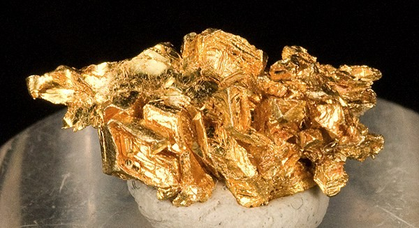 Gold Locality: Round Mountain Mine, Round Mountain District, Nye County, Nevada, USA (Locality at ) Size: 1.5 x 0.8 x 0.6 cm. A fine thumbnail cluster of bright, rich, octahedral gold crystals from recent finds at the Round Mountain Mine of Nevada. The crystals occur as hoppered to flattened octahedrons on this interesting arborescent specimen. Superb quality for the locality in this sharp thumbnail.